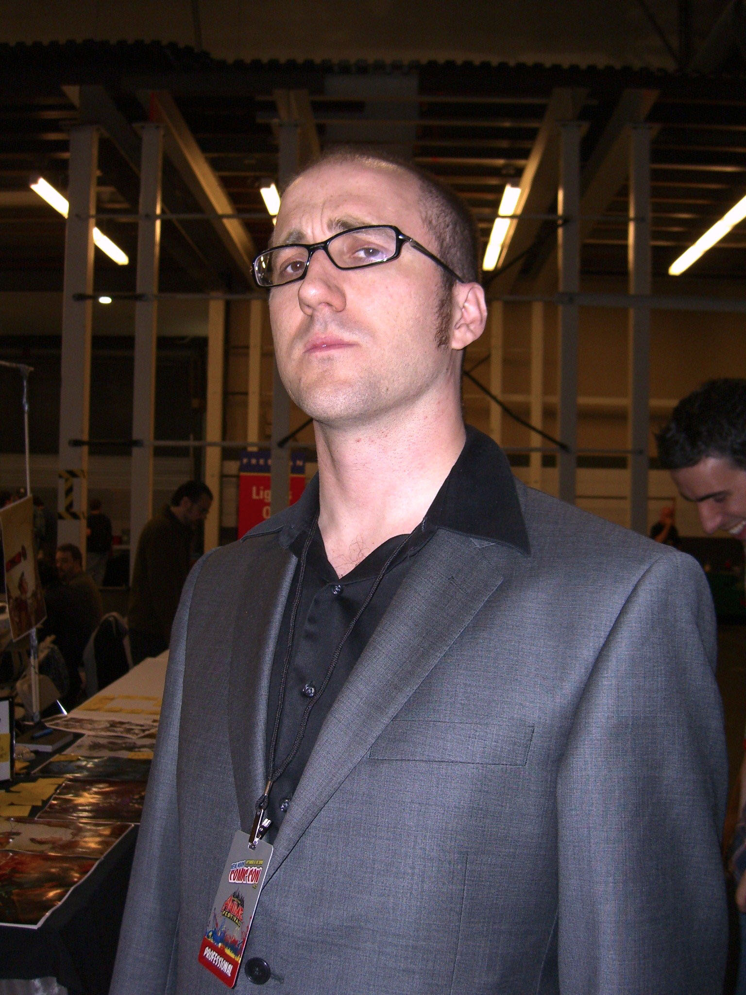 Comic book creator Kieron Gillen, at the New York Comic Convention in Manhattan, October 10, 2010. Photo by Luigi Novi. This photo may be used, modified and published for any purpose, only if a easily visible credit to the photographer is placed near the photo in each instance in which it is used. (See licensing information below.) Publication of this photo without this proper attribution constitute copyright infringement. For more information on my photos, you can contact me here.